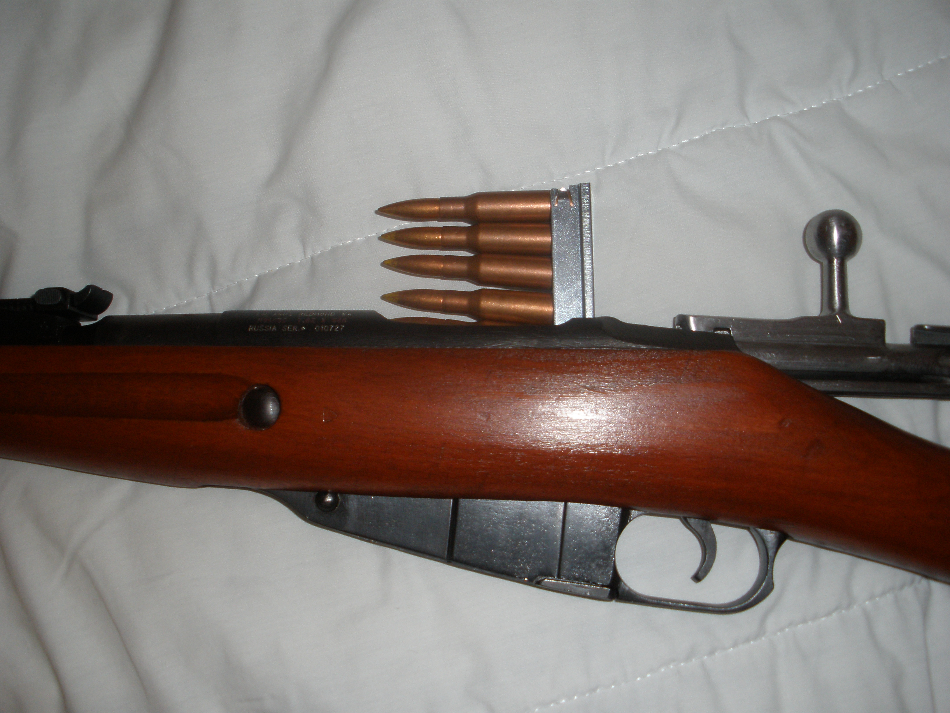 ammo